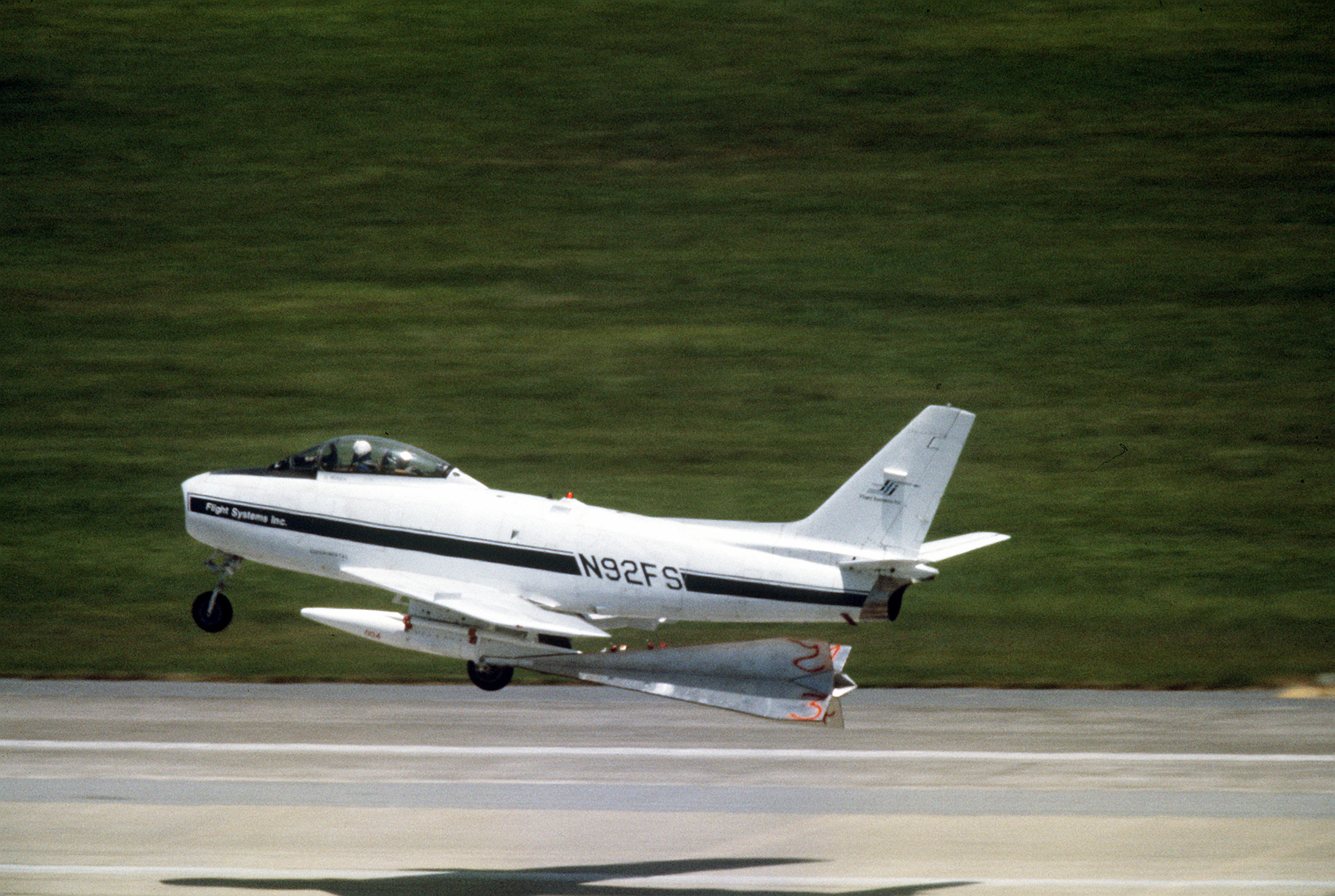 A specially-modified Flight Systems Inc. Canadair Sabre Mk.6 aircraft with a tow target attached takes off on a mission on 22 August 1984. The company held a contract for F-15 Eagle aerial gunnery training with the U.S. Pacific Air Force at Kadena Air Base, Okinawa (Japan), and other area military facilities.